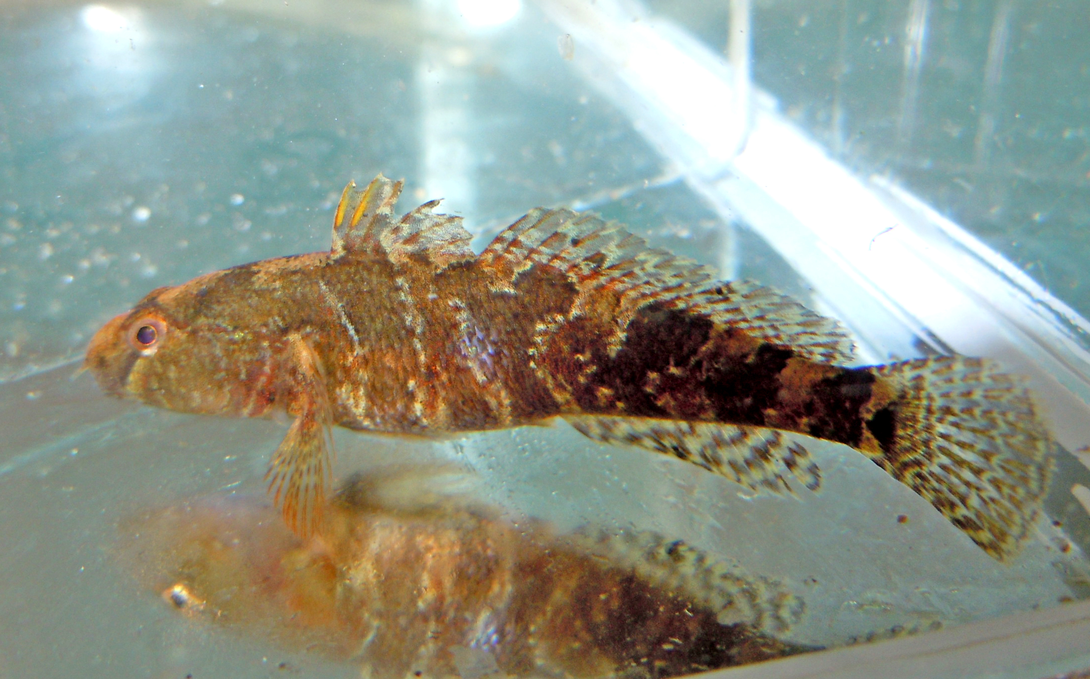 Marine tubenose goby (Proterorhinus marmoratus) from the Gulf of Odessa, Ukraine